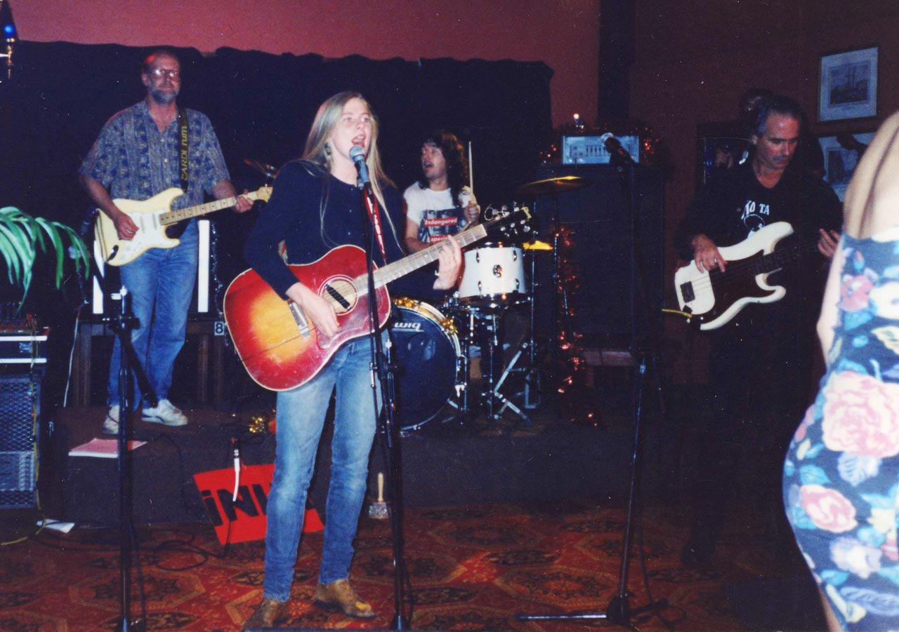 MikeKnapp07.jpg - photo taken and uploaded by Paul Moss, Photographer, Artist, Paul Moss Photographer Artist NZ